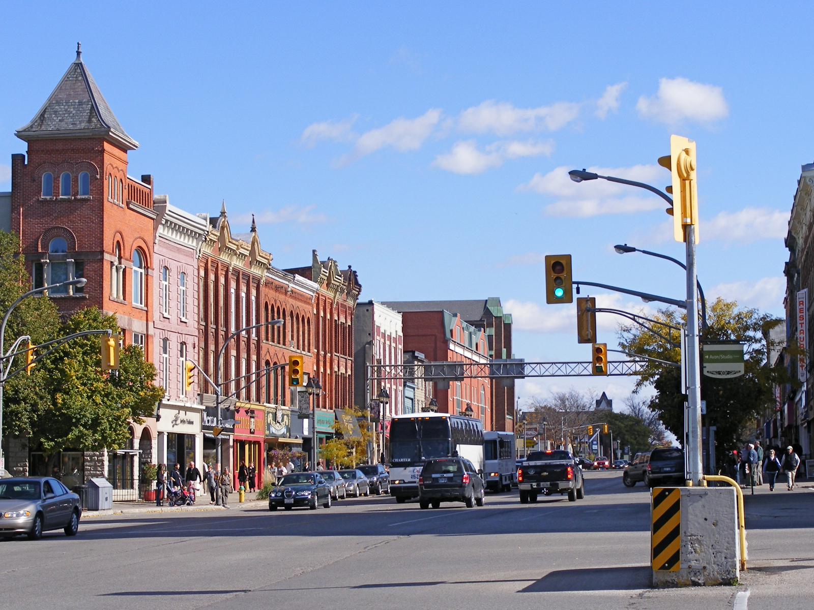 Ontario Street in Stratford, Ontario, Canada.